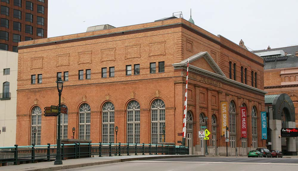 Oneida Street Station, National Registered Historic Place. Revolutionary power plant belonging to The Milwaukee Electric Railway & Light Company. Also known as the East Wells Power Plant.